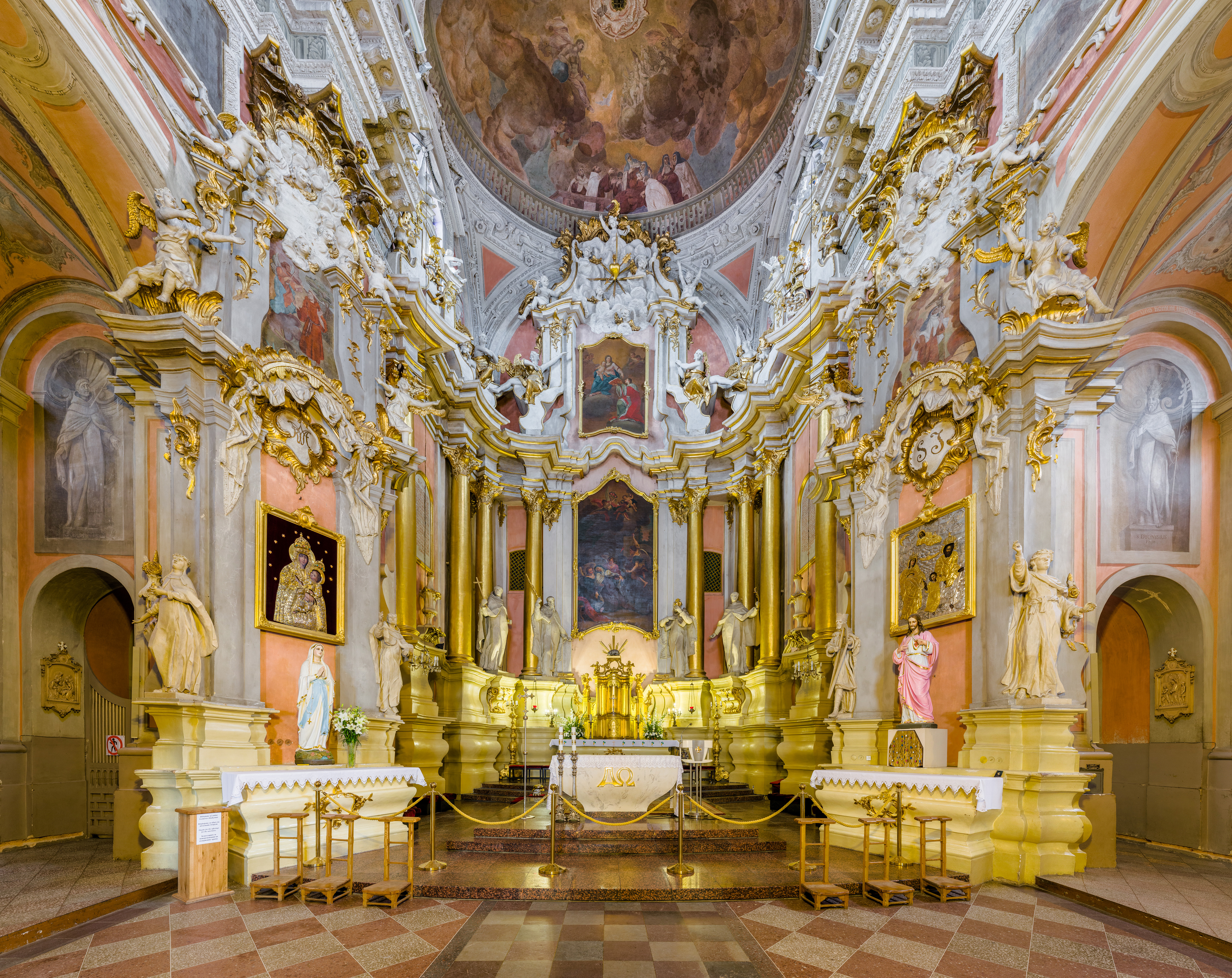 The church of St. Teresa, Vilnius, Lithuania.